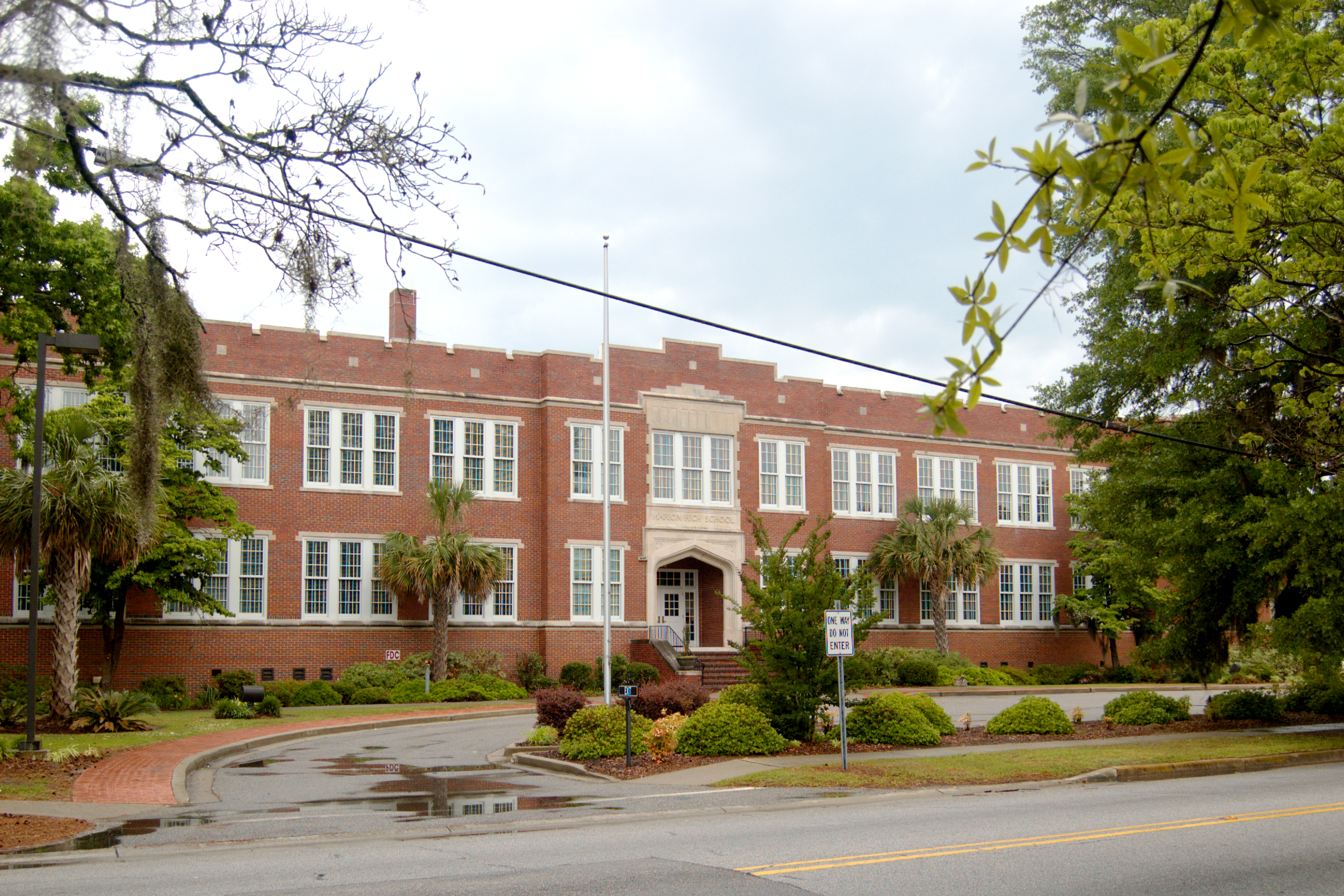 Marion High School, 719 N. Main St. Marion